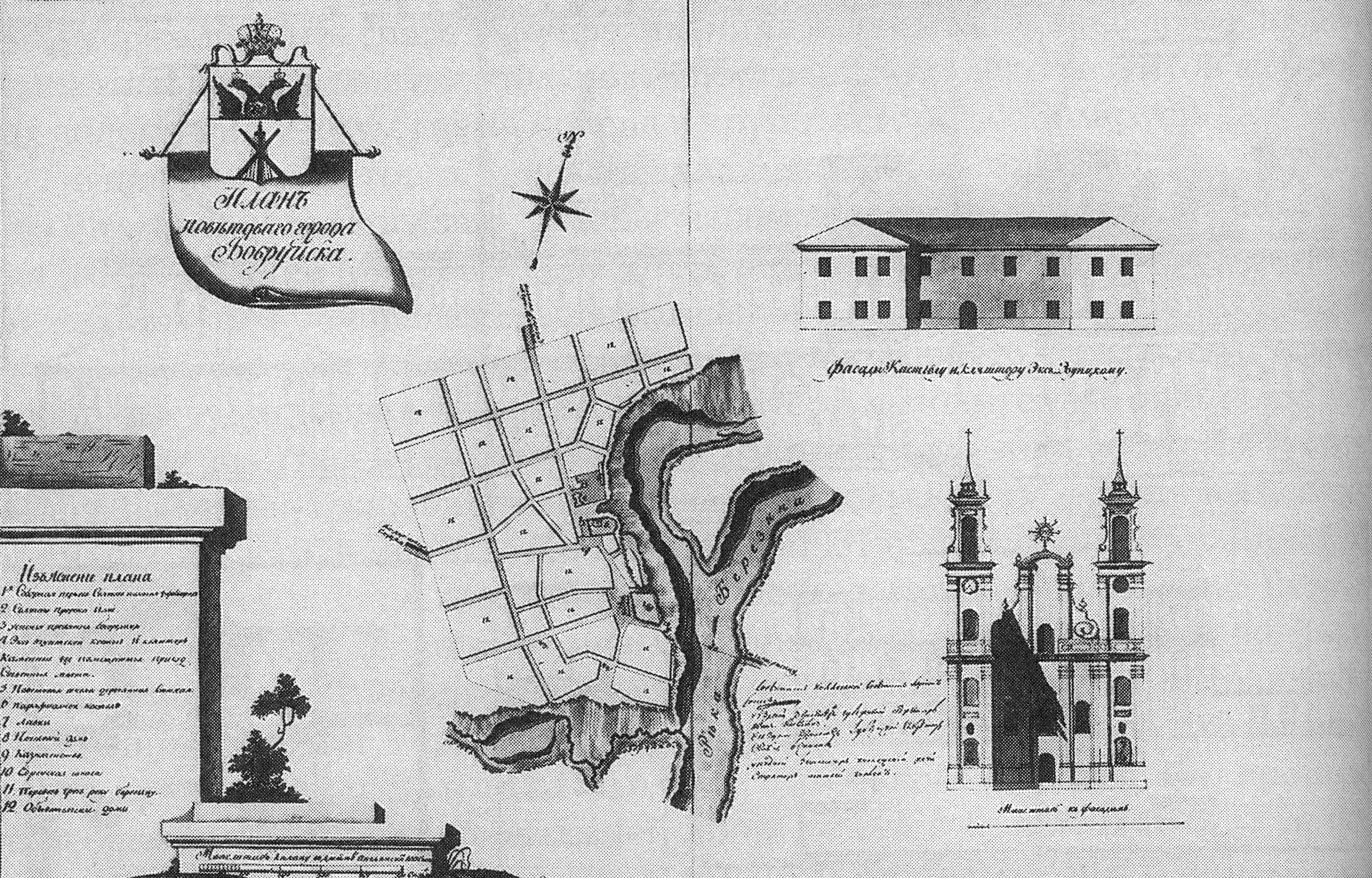 Drawing of Babrujsk Jesuit Abbey